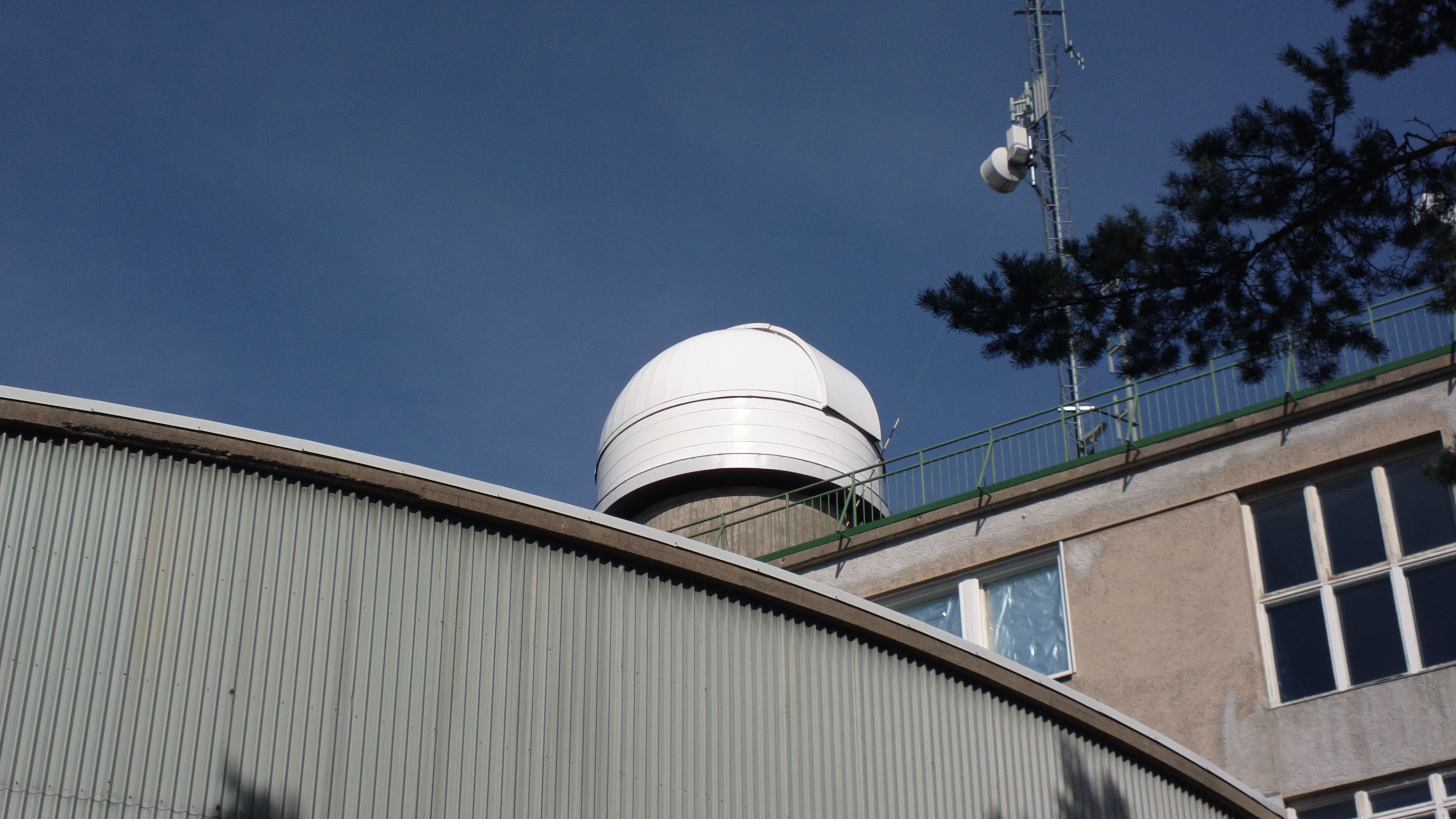 Kauppi observatory on top of Kauppi new water tower